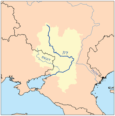 This is a map of the Don and Donets rivers Karl Musser, created it based on USGS data and I've changed it to Hebrew.